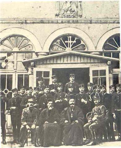 Cretan Gendarmerie in the Ecumenical Patriarchate of Constantinople (Istambul), November 1918.